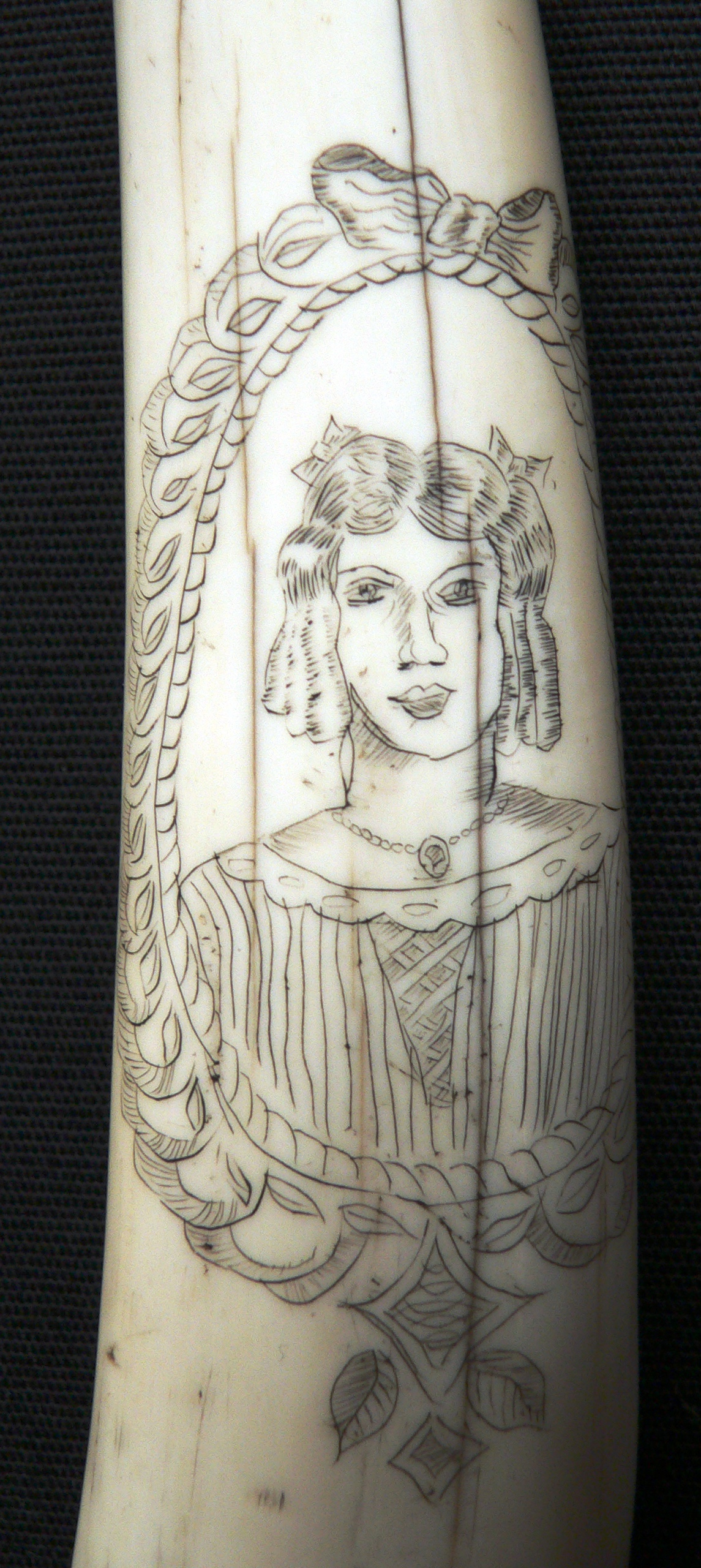 Closeup of image of a lady from image: "Scrimshaw Walrus Tusks" (A pair of walrus tusks depicting a sailor and a lady) circa 1900, CT or Rhode Island.